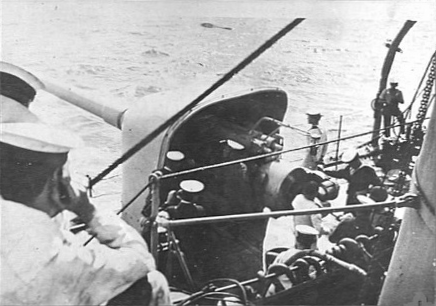 Gunnery practice with BL 6-inch Mk XI gun on Australian cruiser HMAS Brisbane.